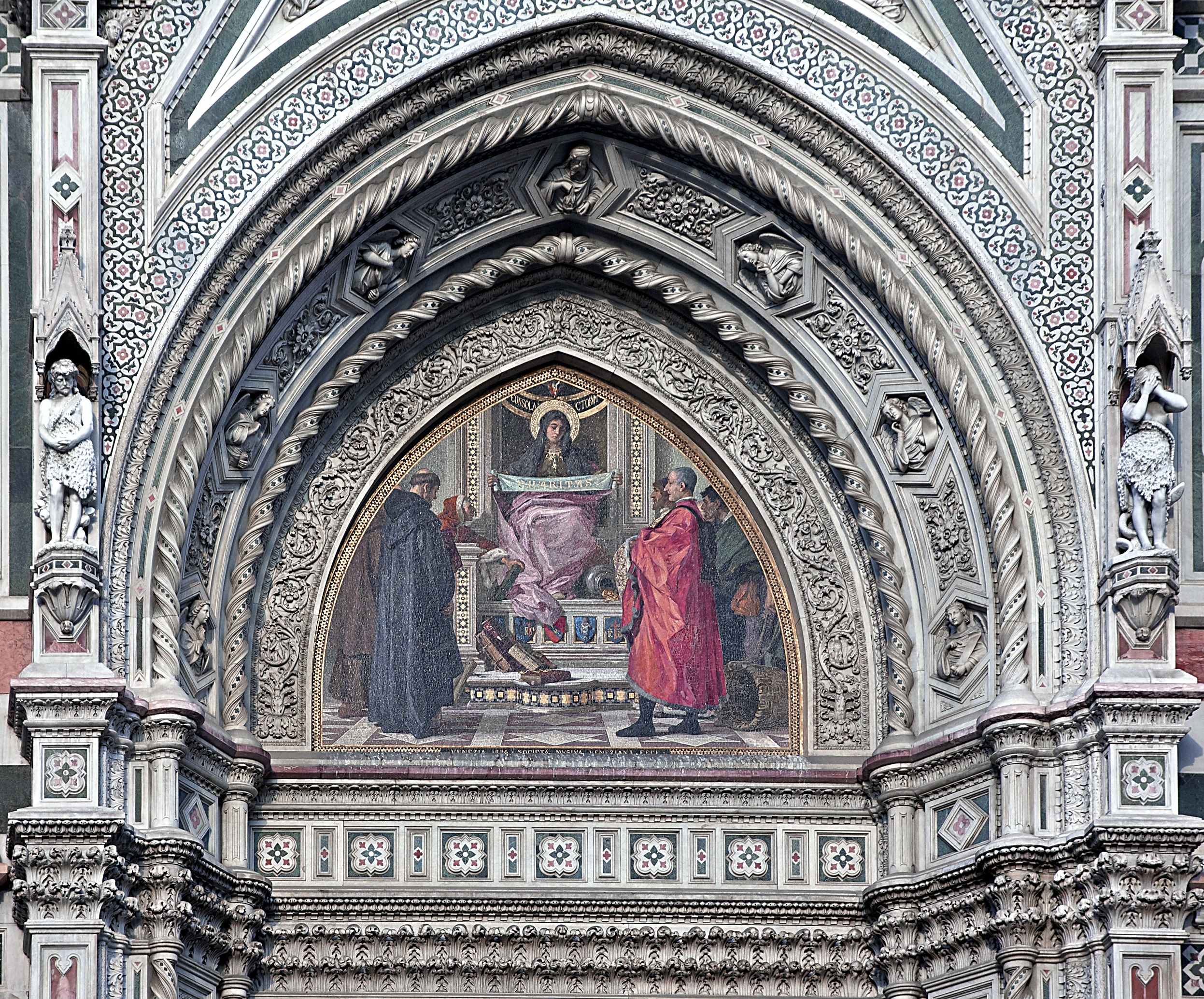 The 19th century gothic revival mosaic of the tympanum above the left gate of the cathedral Santa Maria del Fiore in Florence, Italy. Made in Venice in 1886 after drawings by Nicolò Barabino.Shows the "Charity", with some florentine founders of philanthropic institutions.